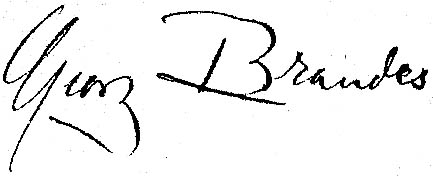 Signature of Georg Brandes